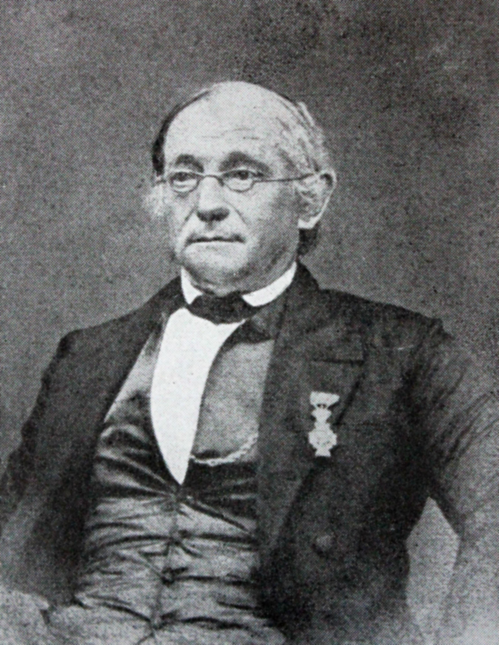 Frederik Fischer (1809-1871) was a Danish editor, watchmaker and nationalist who was involved in the Danish case of Schleswig-Holstein in the mid 1800's.